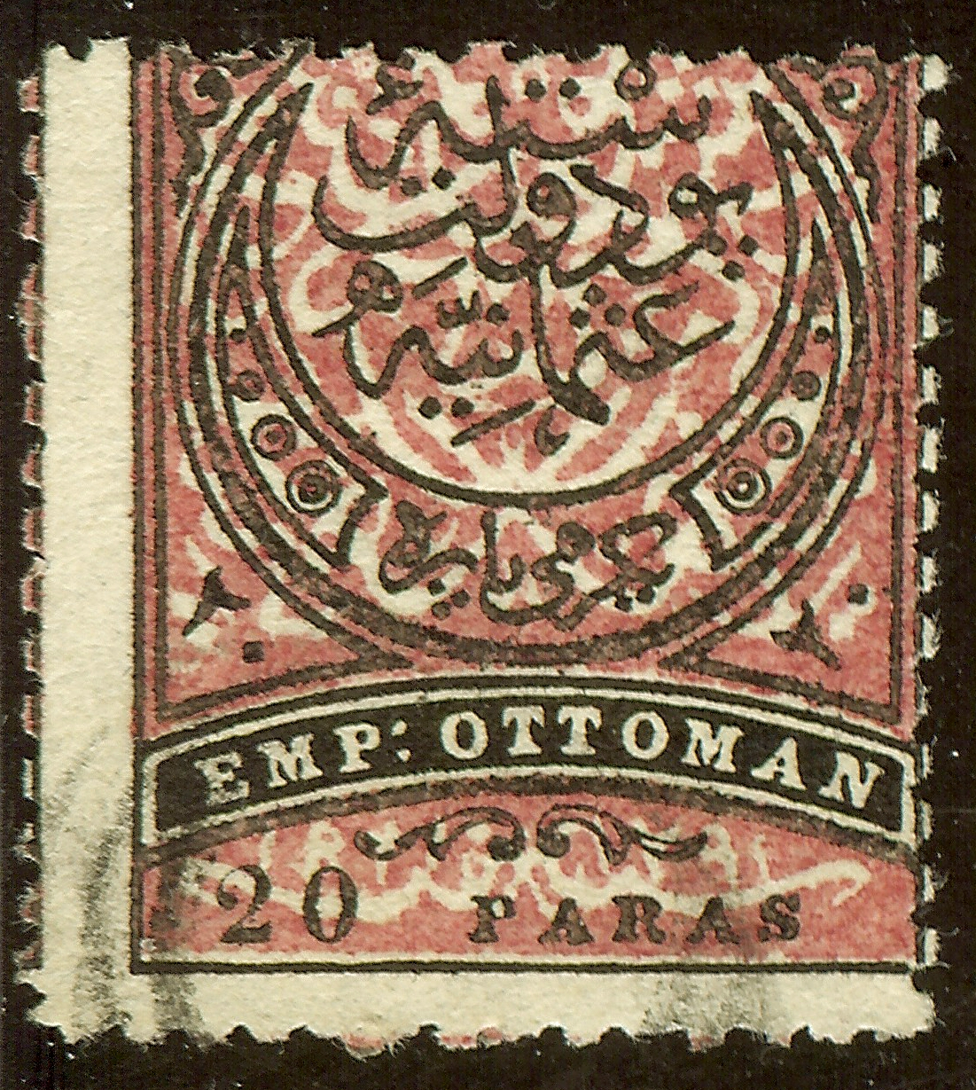 A 20 para stamp of Ottoman Empire, 1880-84, Empire issue, Scott Cat. no. 61.